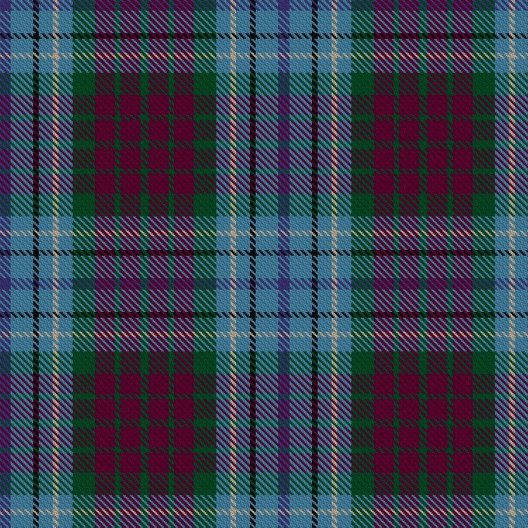 Tartan pattern created by Pixar Animation Studios during the production of the 2012 film Brave to represent the fictional Clan DunBroch